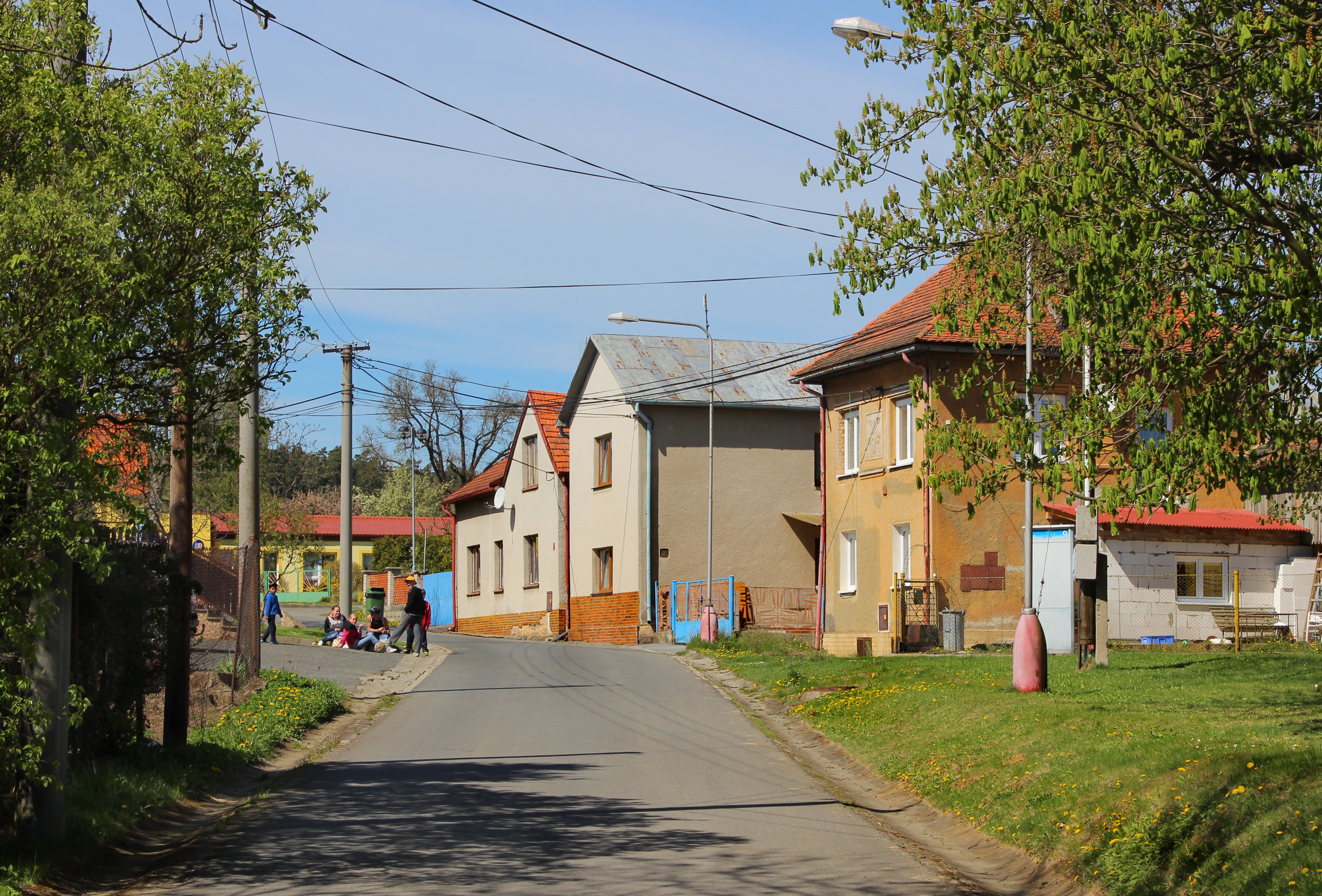 Middle part of Záchlumí village, Czech Republic